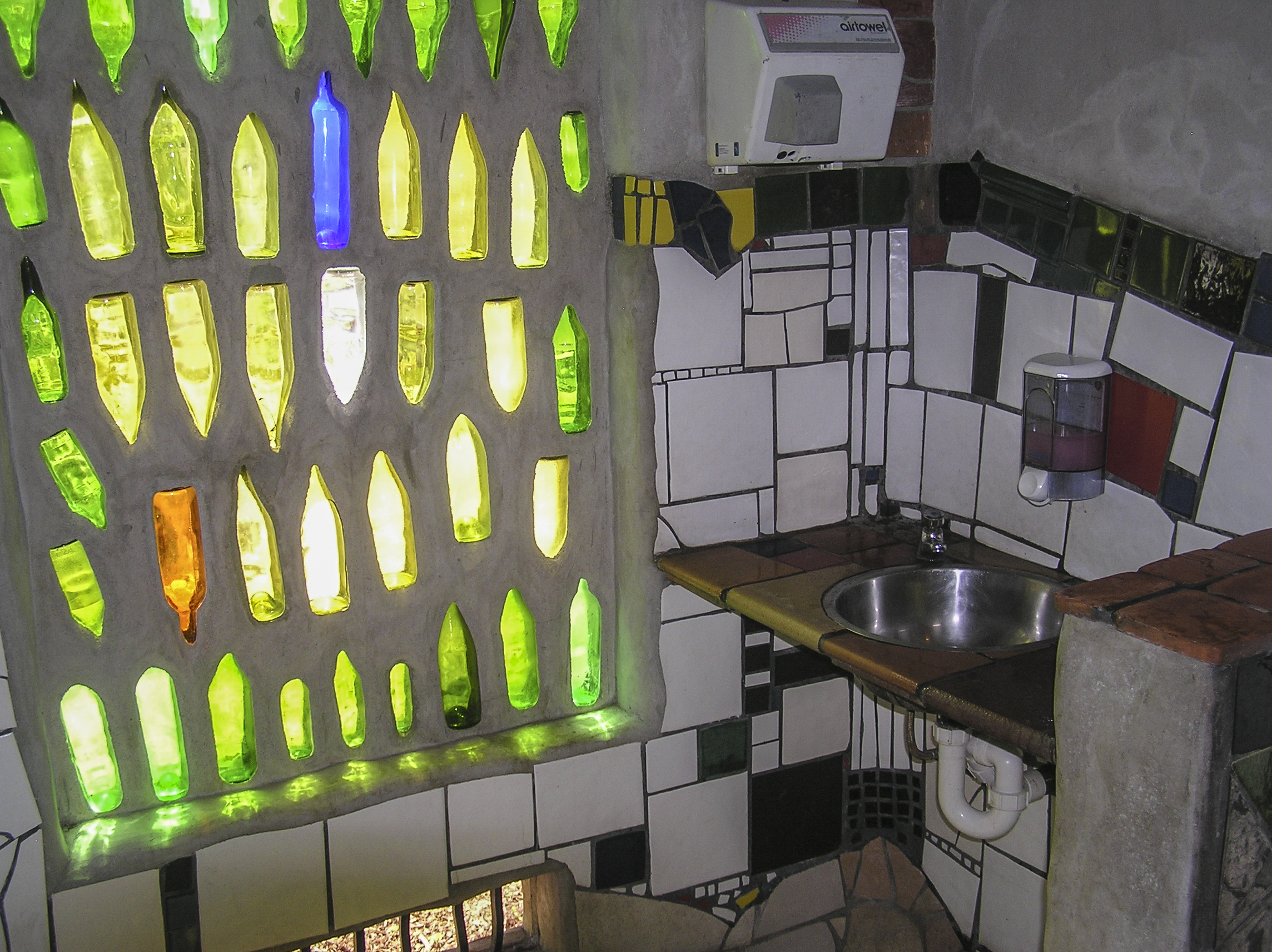 Public Toilets in Kawakawa designed by Frederick Hundertwasser, Far North District Council, New Zealand.